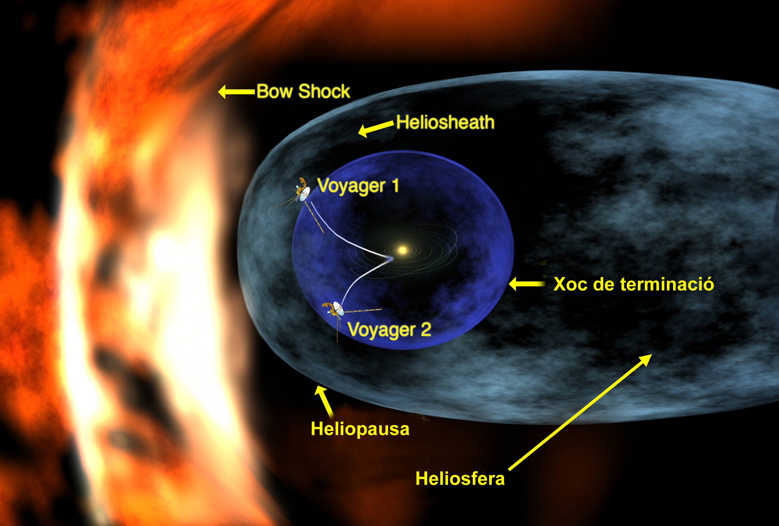 Catalan version. This still shows the locations of Voyagers 1 and 2. Voyager 1 is traveling a lot and has crossed into the heliosheath, the region where interstellar gas and solar wind start to mix. Suggested for English Wikipedia:alternative text for images: orange area at left labeled Bow Shock appears to compress a pale blue oval-shaped region labeled Heliosphere extending to the right with its border labeled Heliopause. A central dark blue circular region is labeled Termination Shock with the gap between it and the Heliosphere labeled Heliosheath. Centred in the blue region is a concentric set of ellipses around a bright spot with two white lines curving away from it: the upper line labeled Voyager 1 ends outside the dark blue circle; the lower line labeled Voyager 2 appears inside